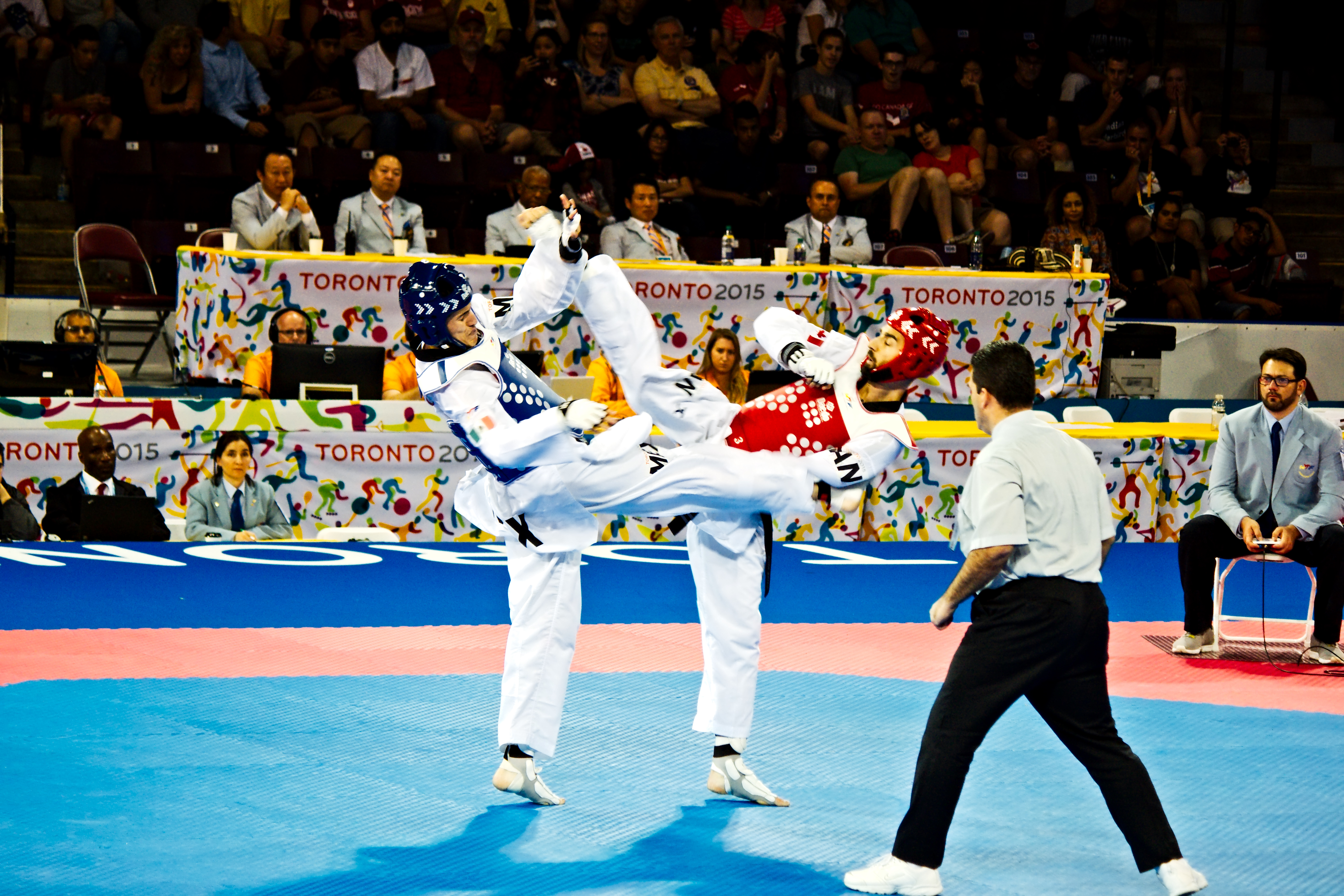 Taekwondo at the 2015 Pan American Games